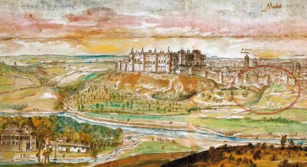 Location (in a red circle) of the stream ravine of San Pedro, in a view of Madrid from 1562 from the south. Made in pen with sepia ink and water color on paper. It is conserved in the National-bibliothek of Vienna (Ms. Min. 4135ro). The complete drawing measures 382 x 1385 mm.